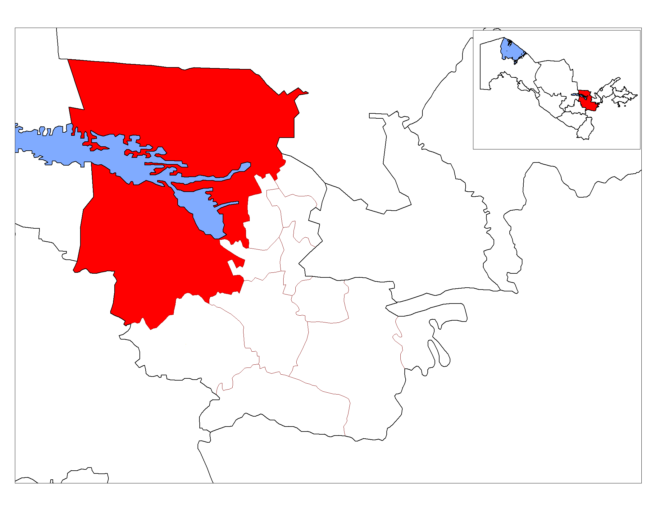 Location map of Forish District in Jizzax Province, Uzbekistan